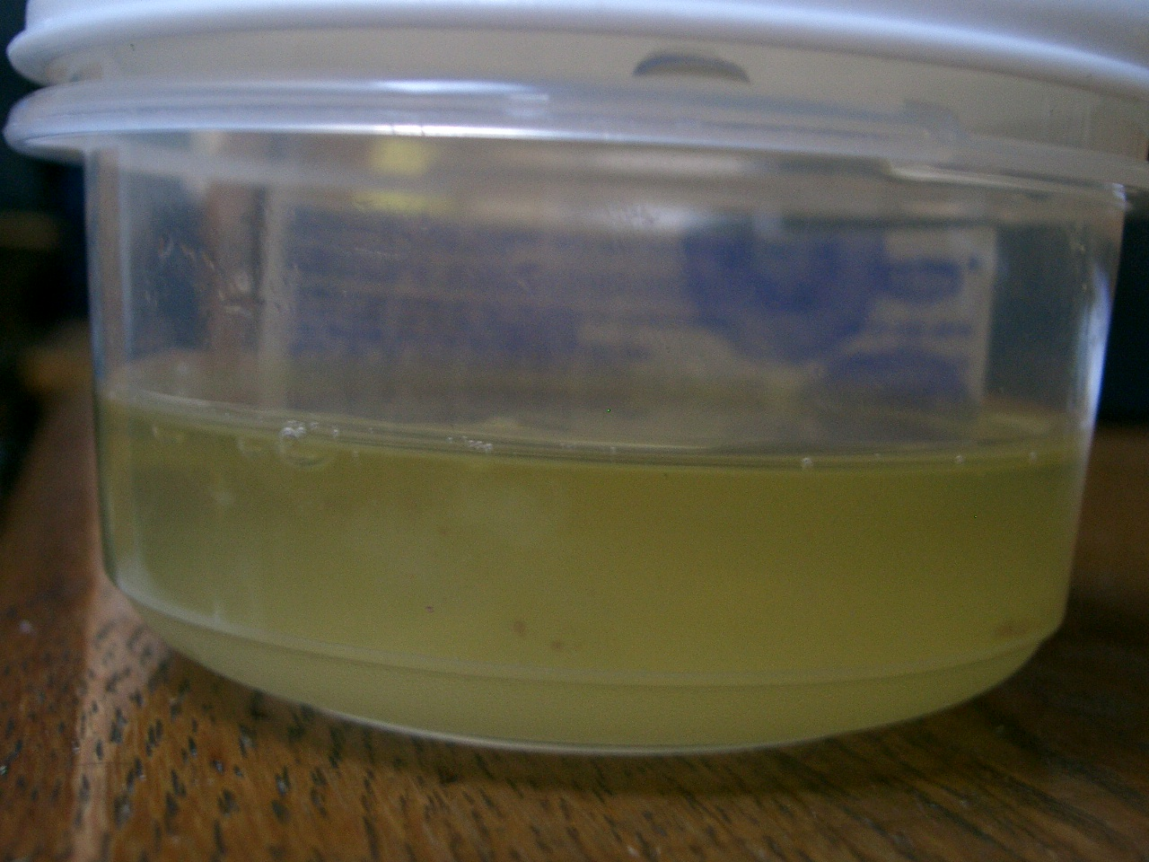 Egg white in a plastic container. Photo taken by User:Edward on 28 December 2005.